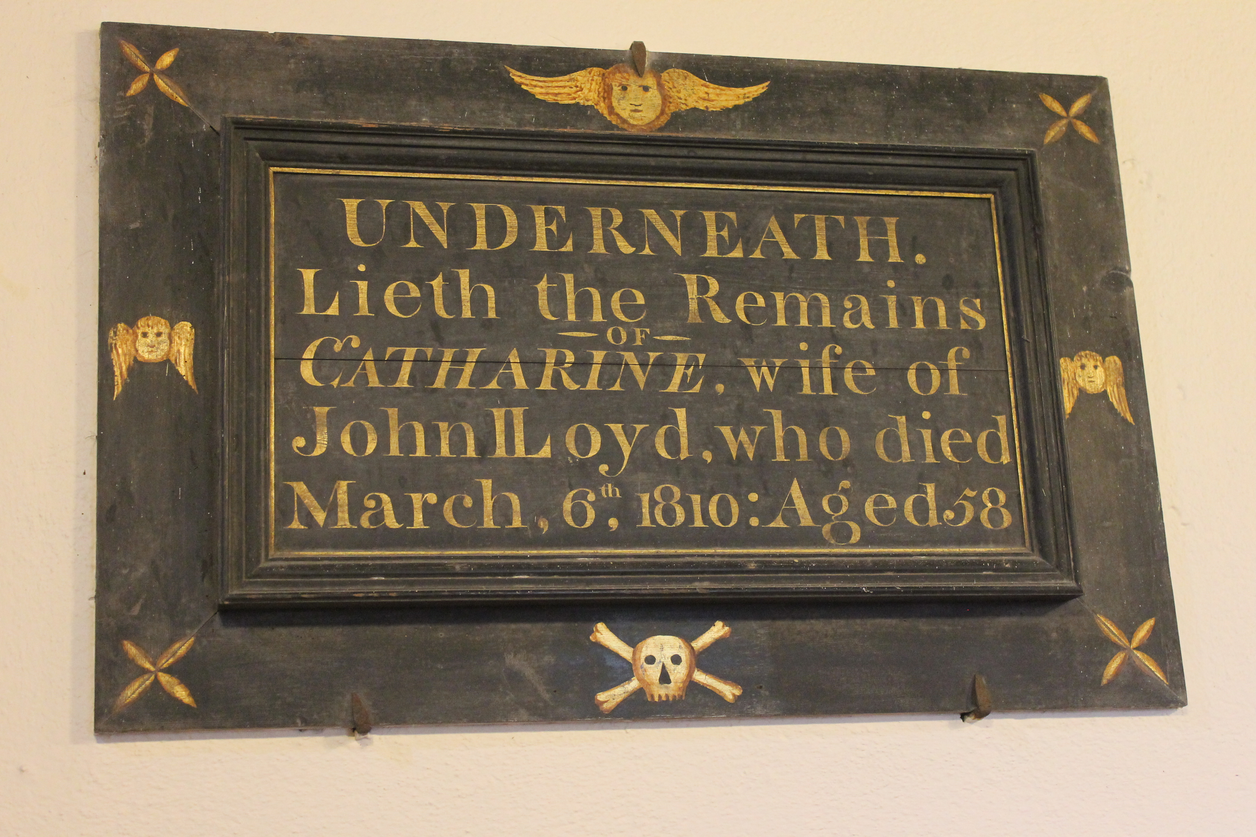 Church of St Michael and All Angels